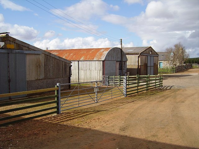 Blar-mhòr. A large area of improved farmland has been won from the peat along the course of the Bannock Burn. The farm here is equipped for cattle raising, as well as the ubiquitous North Country Cheviot sheep.